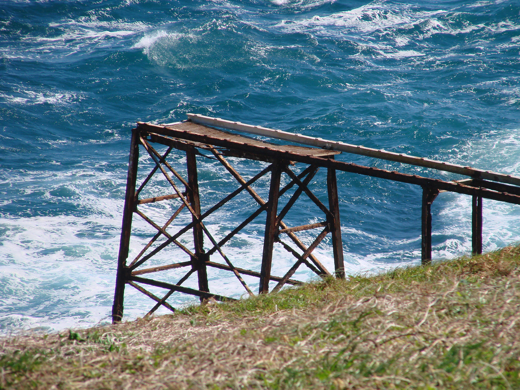 South Solitary Island jetty, 2008